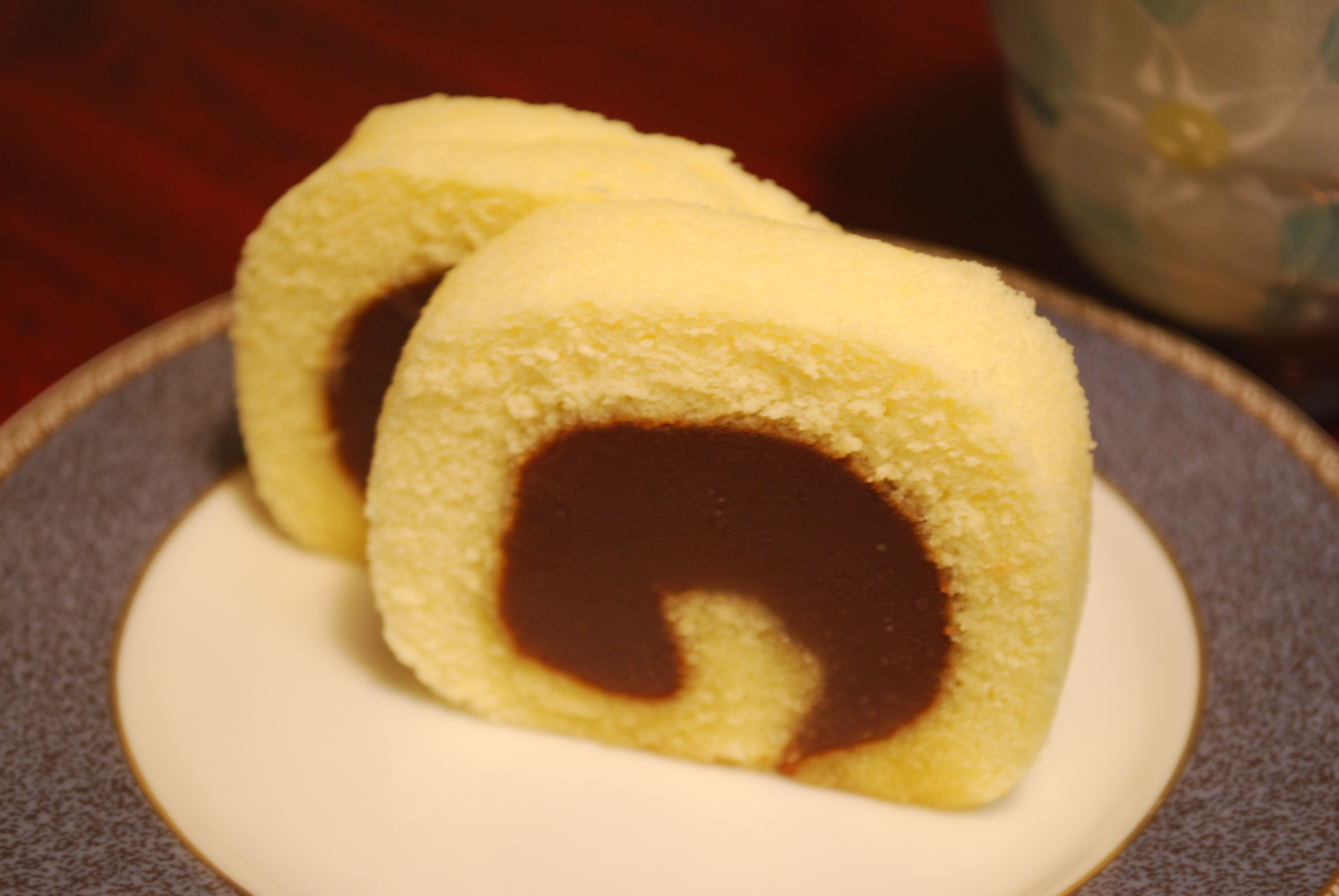 Taruto,Matsuyama-city,Japan